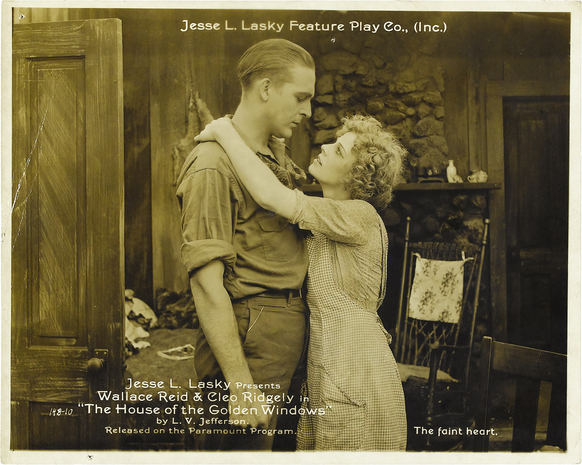 Lobby card for the American drama film The House with the Golden Windows (1916) aka The House of the Golden Windows.